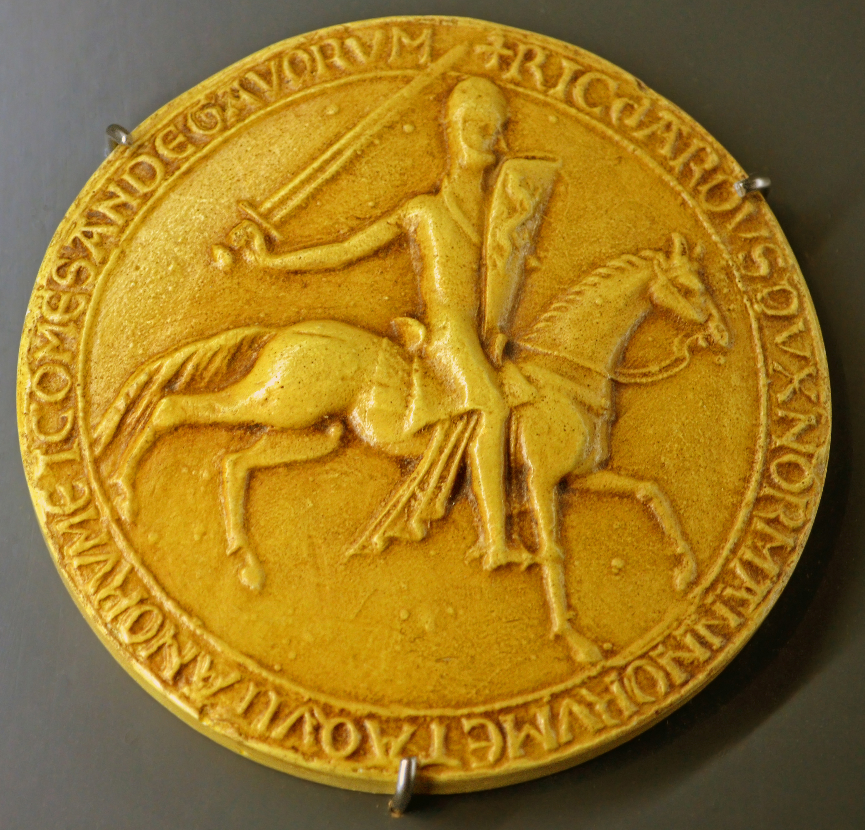 Counter seal (1195) of Richard I of England (1189-1199). Inscription: RICHARDUS DUX NORMANNORUM ET AQUITANORUM ET COMES ANDEGAVORUM ("Richard Duke of the Normans and of the Aquitanians and Count of the Angevins") Exhibited in History Museum of Vendée - Les Lucs-sur-Boulogne, Vendée